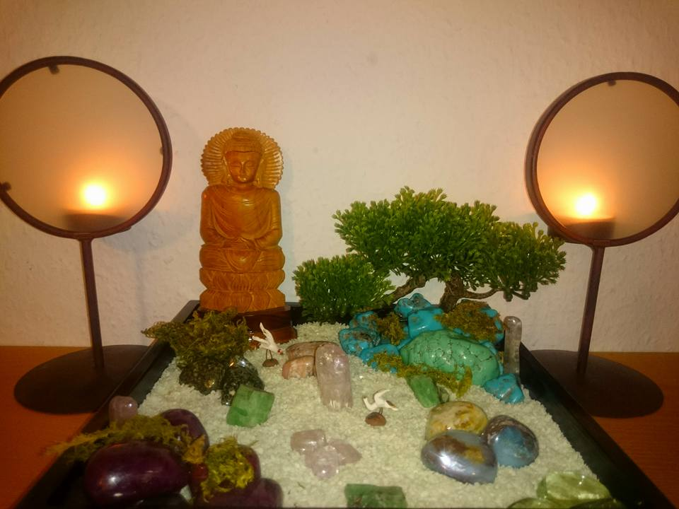 Miniature Rock Garden for Home with Buddha Statue, Bonsai Tree and Gemstones.